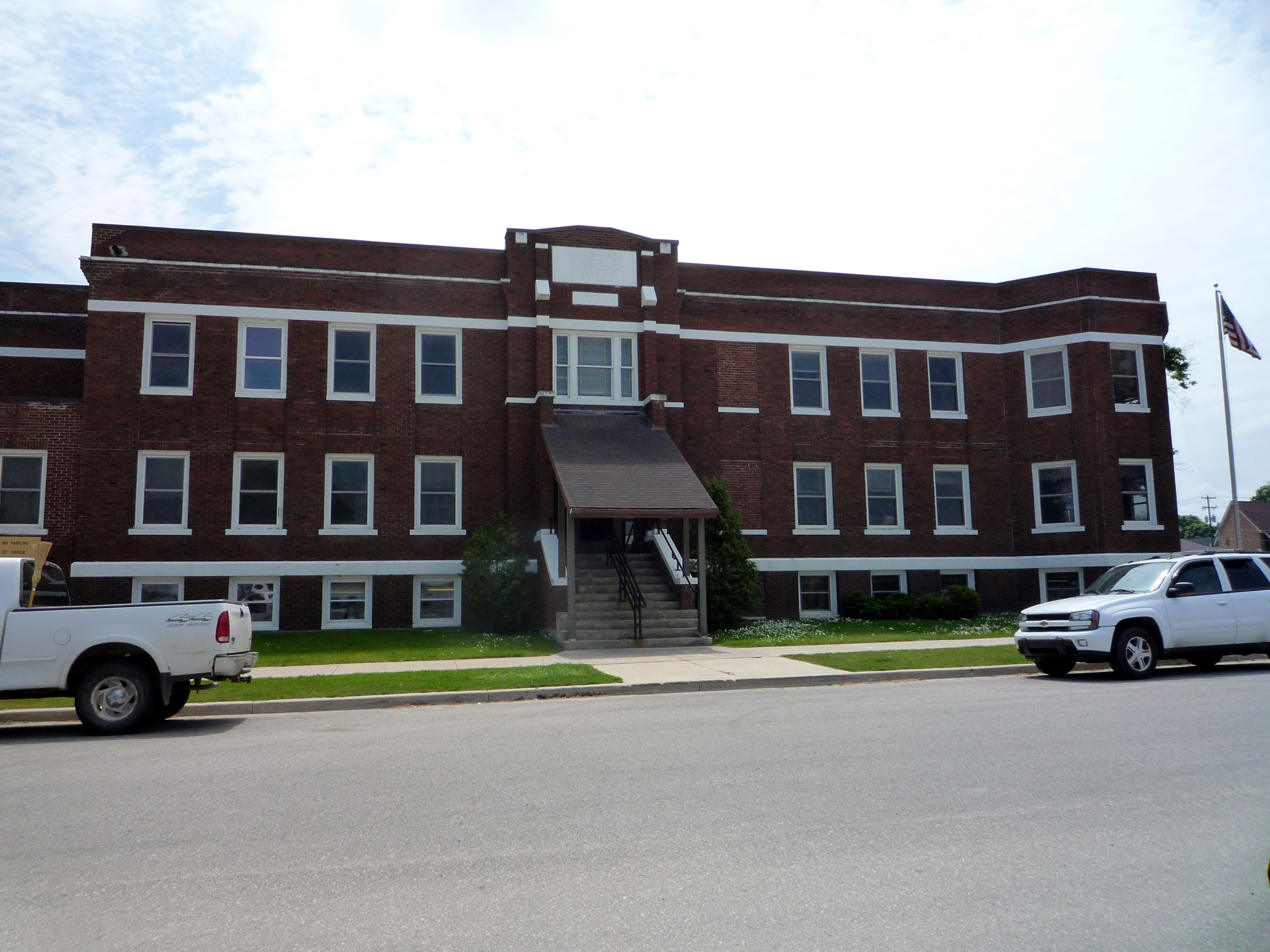 McMillan Township Hall, Newberry, Michigan, USA.